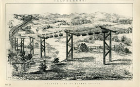 This is a drawing of the telpher designed and engineered by Fleeming Jenkin -- the first telpher ever. It was installed in Glynde, UK in 1885-- finished after Jenkin's death. Image found cut from book at a bookstall in Cambridge, UK --labeled from above source.